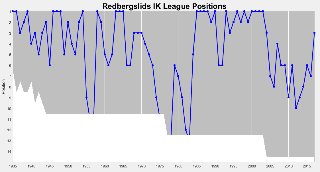 Redbergslids IK positions in the top division. The grey area denotes the number of teams in the top division. For split seasons, the autumn positions are shown when the team did not play in the top division in the spring season.